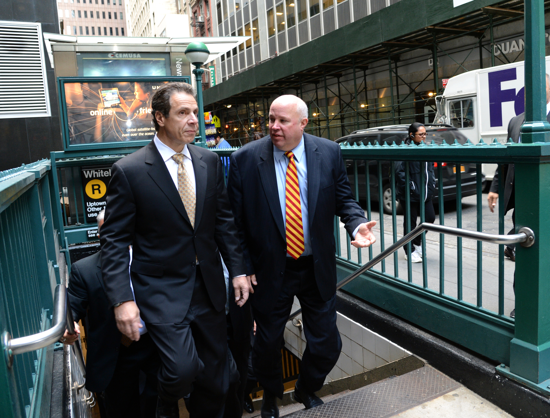 MTA Chairman and CEO Thomas Prendergast was joined by New York Governor Andrew M. Cuomo at MTA New York City Transit Headquarters on Thu., October 24, 2013 to announce a joint campaign to promote tourism in areas that have recovered from Superstorm Sandy. [#//new.mta.info/news-i-love-ny-metrocards-lirr-metro-north-subway-buses-superstorm-sandy/2013/10/24/new-i-love-ny” Come See The Comeback] Photo: Marc A. Hermann / MTA New York City Transit